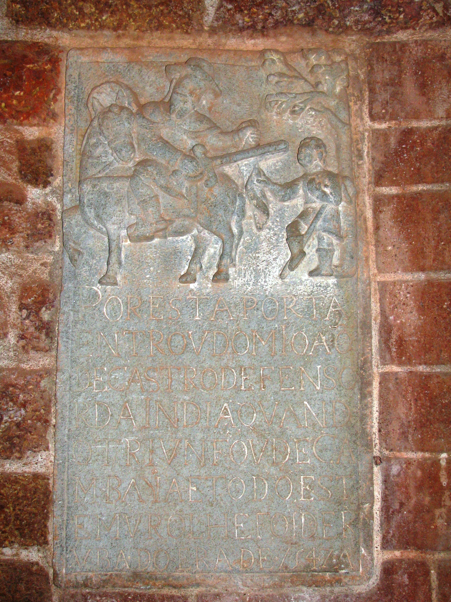 Saint Catherine's Chapel in Velha Goa, Goa, India